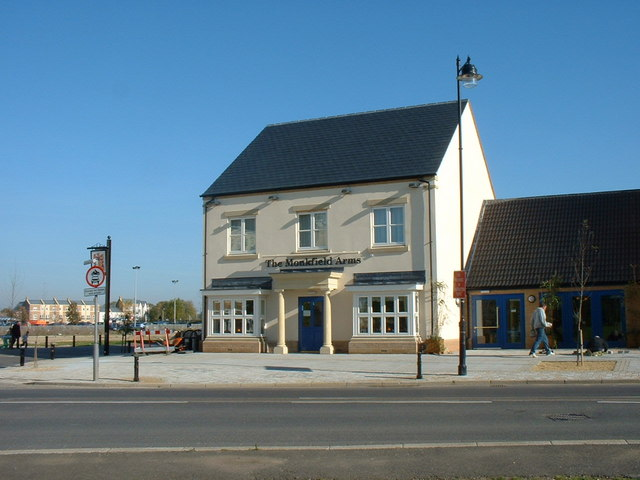 The Monkfield Arms The long-awaited pub for Cambourne.